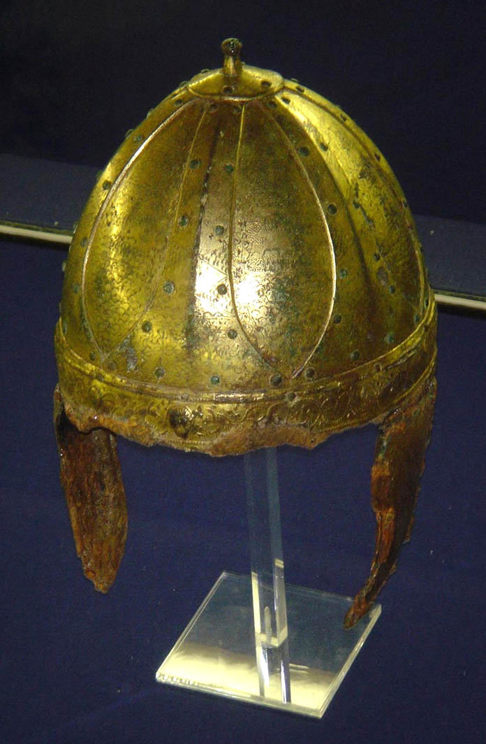 A Roman army helmet in Burg Lynn Krefeld, Germany.